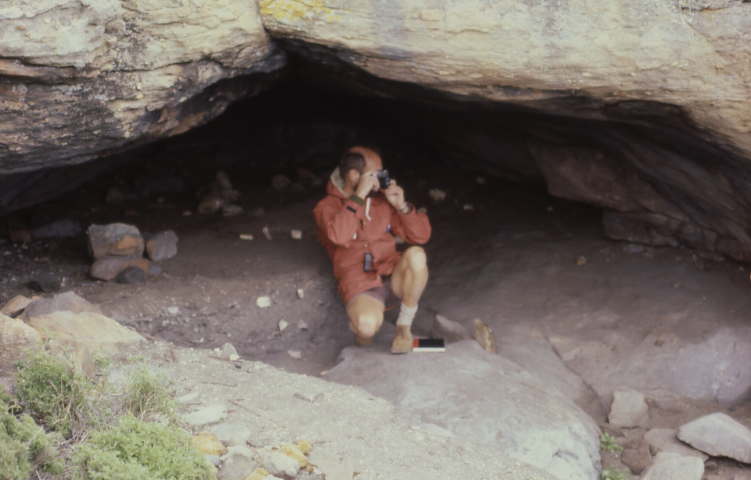 Archaeologist Glynn Isaac at Tortoise Cave, near Elands Bay, South Africa.